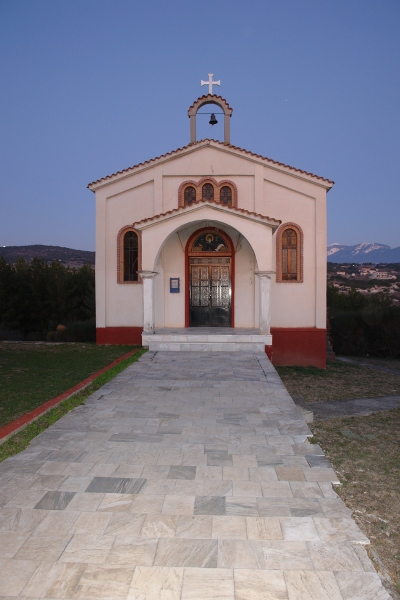 This photo was taken at the church of Blessed Baradatus at the village of Roditis, Kozani, Greece.